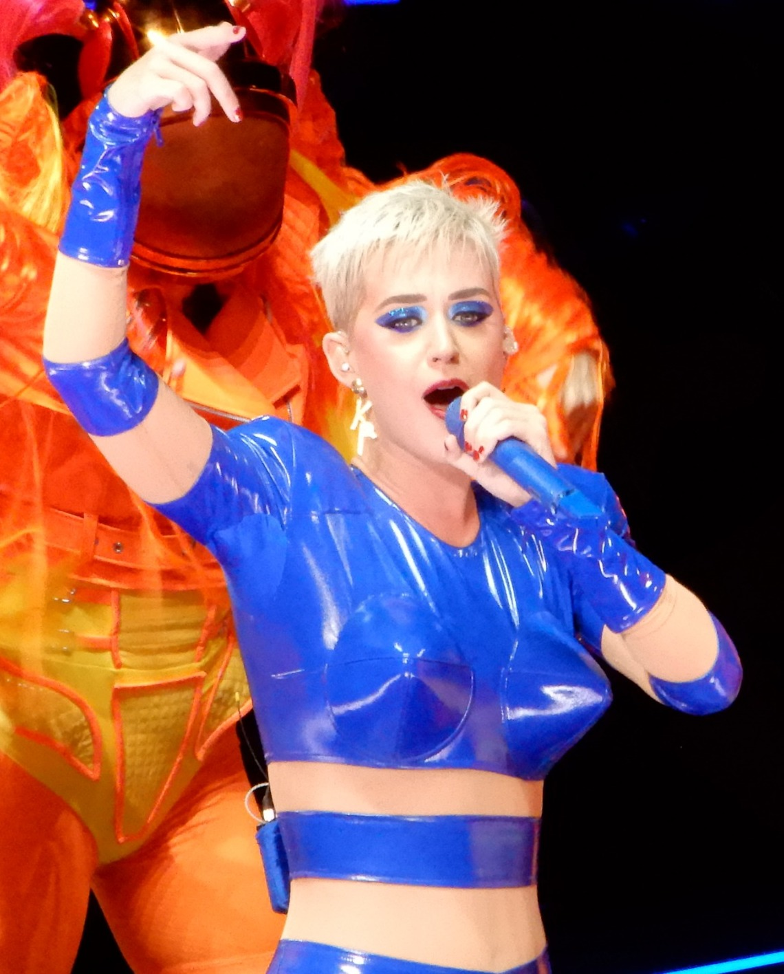 Katy Perry at Madison Square Garden